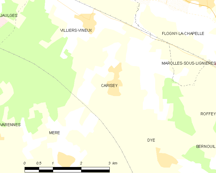 Map of French municipality Carisey